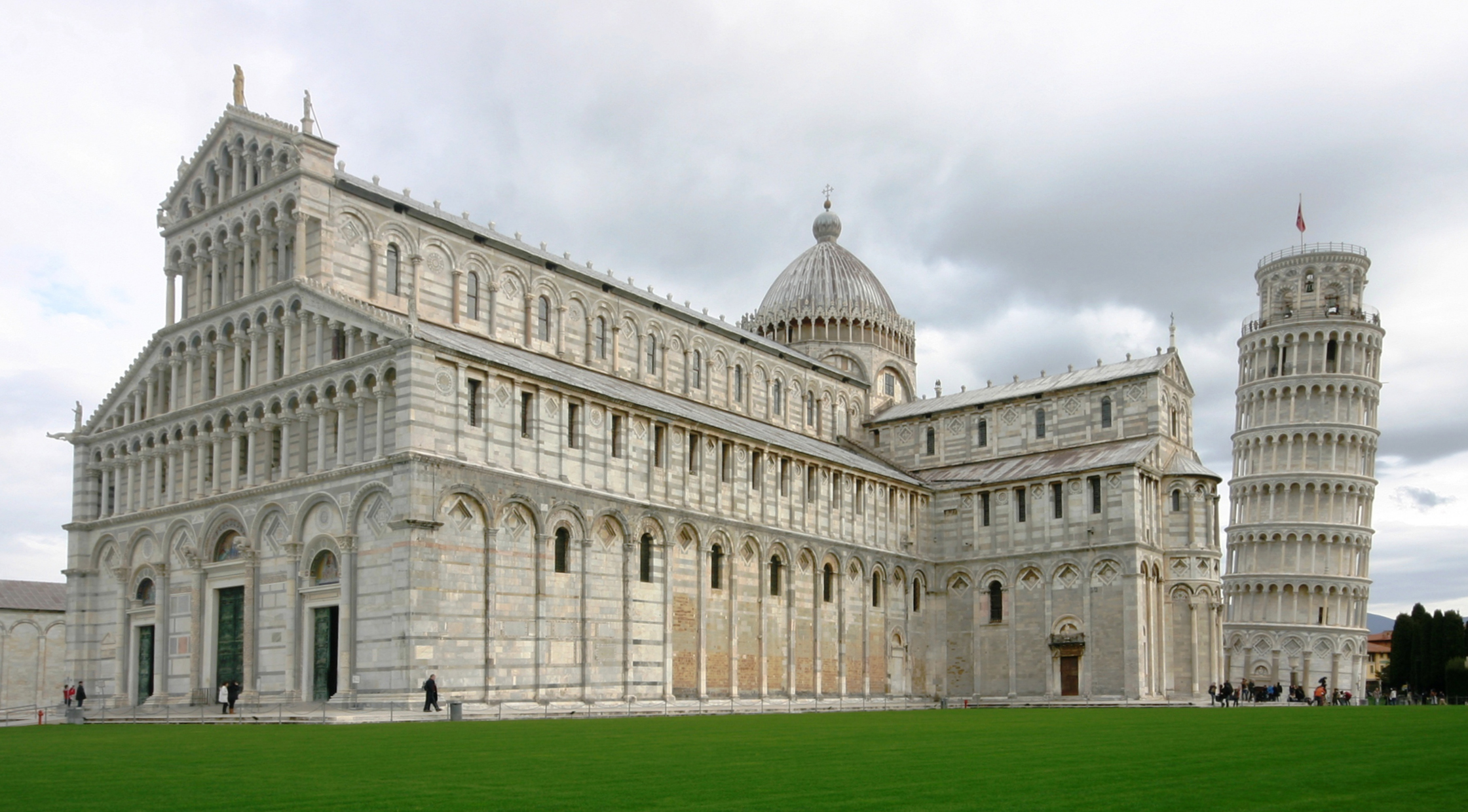 Piazza dei Miracoli (Pisa)